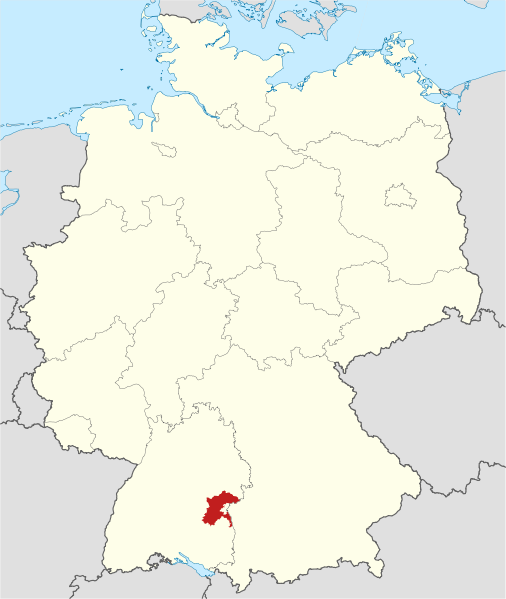 Locator map of Alb-Donau-Kreis in Baden-Württemberg, Germany.